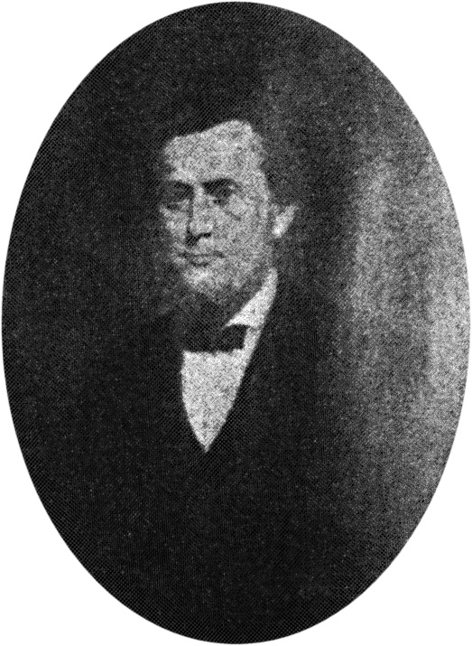 Alvin Wood, 1830-1891